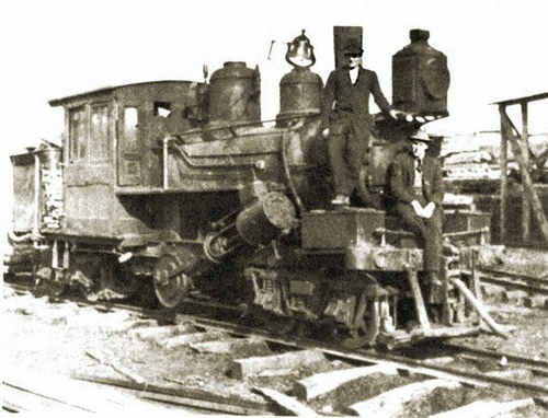 Two men standing atop an engine of the Danville and Western Railway, also known as the Dick and Willie, in Fieldale, Virginia, circa 1900. The Danville and Western ran through Fieldale, which also had a small station.